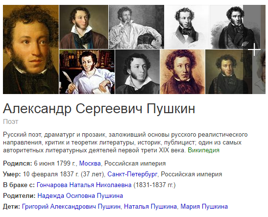 Information from Wikipedia in Yandex.Search